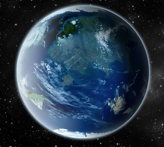 Artist's impression of a superhabitable planet